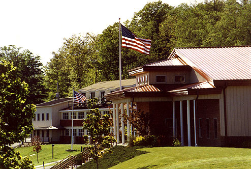 Off-axis view of the front entrance of Family Foundation School's main building.